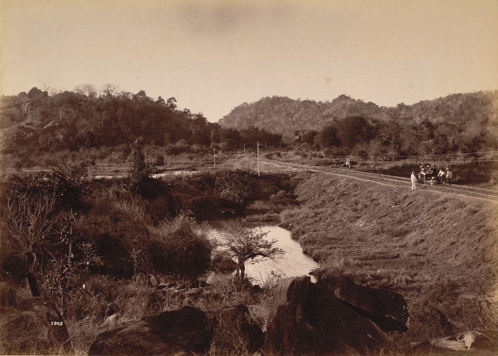 According to the web site Photograph of a section of HH the Nizam's railway line, taken by Deen Dayal in the 1880s, from the Curzon Collection: 'Views of HH the Nizam's Dominions, Hyderabad, Deccan, 1892'. This is general view of the line passing through a gorge with a group of Europeans being pushed along in a type of railway car. India's vast railway network is a legacy of the East India Company. In 1853 there were 32 kilometres of tracks, whereas by 1948 there were nearly 50,000 kilometres. The railway extended to Hyderabad in the 1870s, built by Cyril Lloyd Jones. The line was worked by the Great Indian Peninsular Railway Unit until the end of 1878, followed by the State Railway Agency for the next six years. It was then run by the Nizams Guaranteed State Railway Company from January 1895 to the end of April 1930 when it came into the possession of the government.